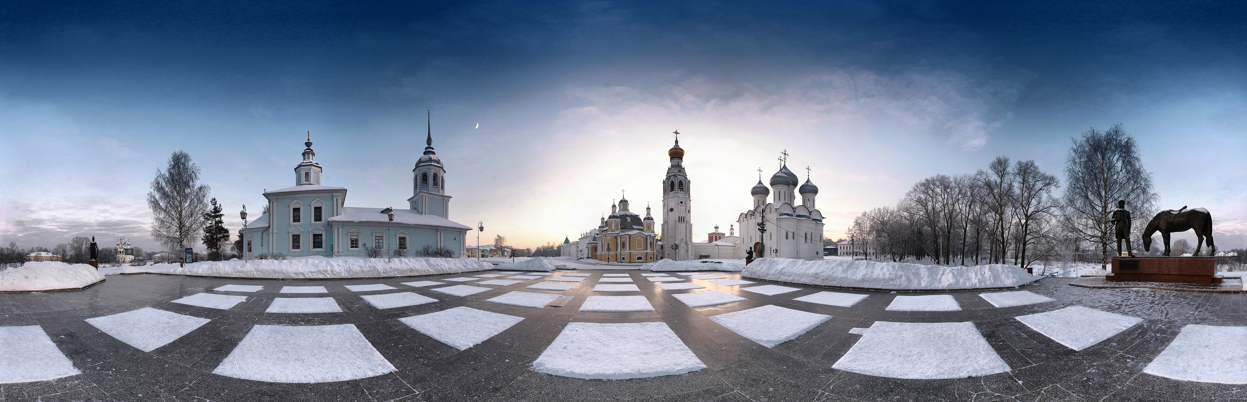 Panorama of Vologda Kremlin.